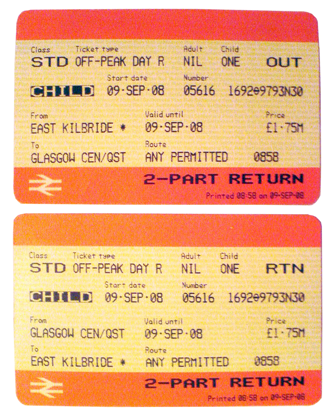 Photo of 1/2 Return ticket from Glasgow Central Station